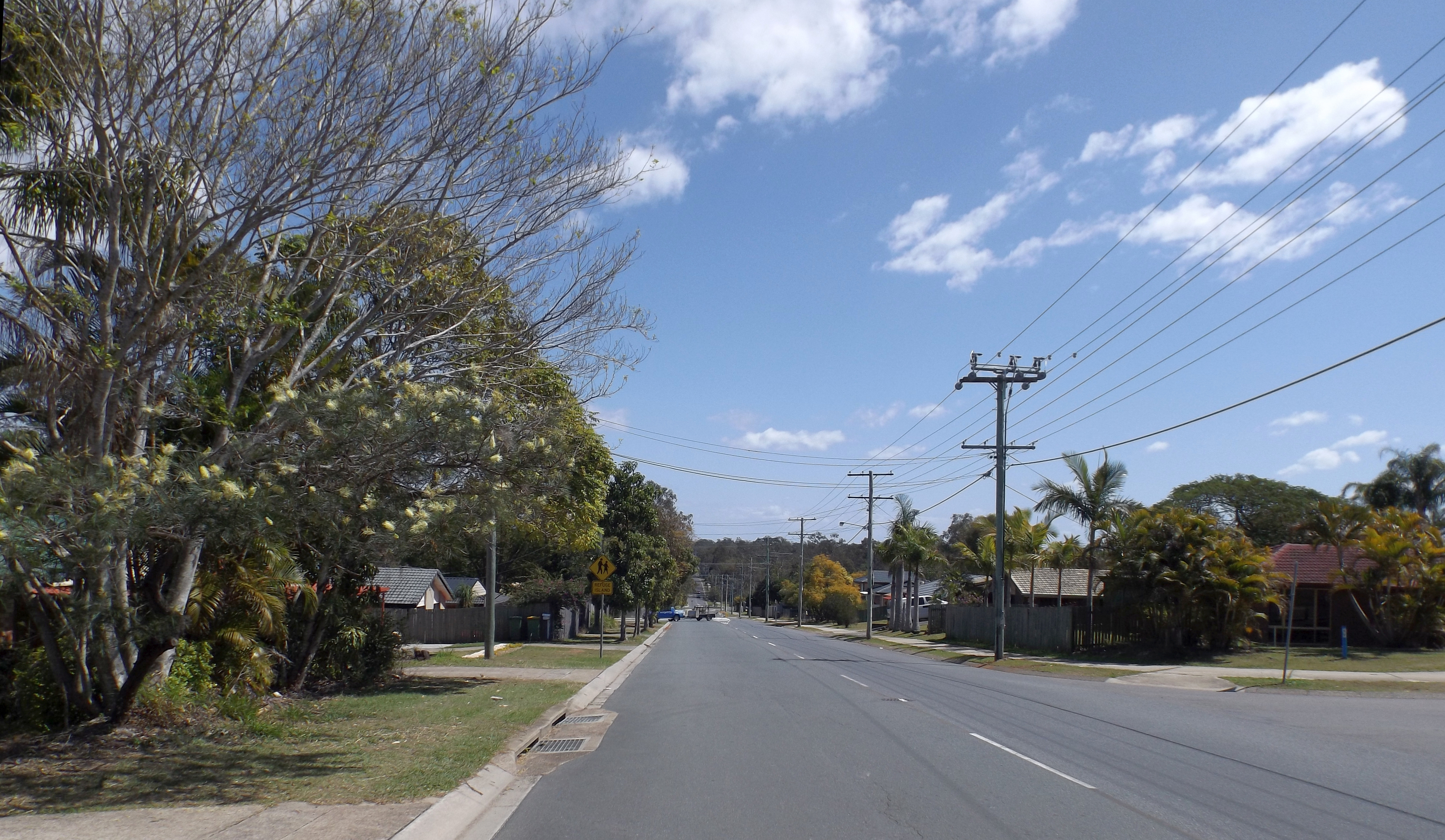 Photo of Addison Road in Camira, City of Ipswich, Queensland, Australia.